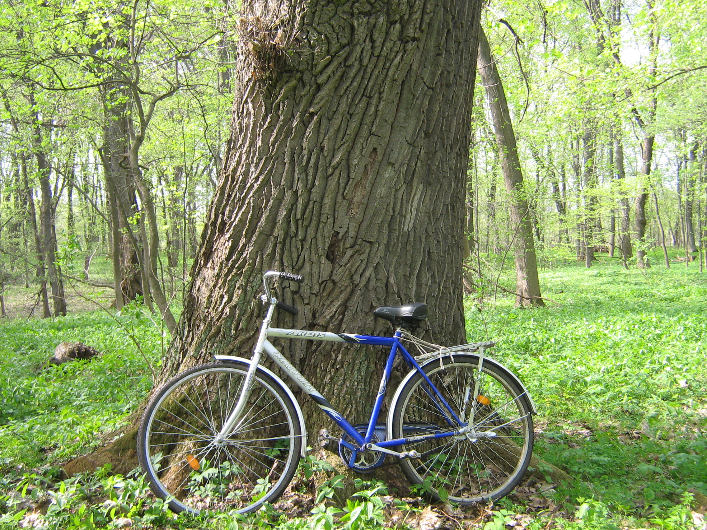 Oak in the tract Buryvnya (Boromlya). Near the village Hizhki.